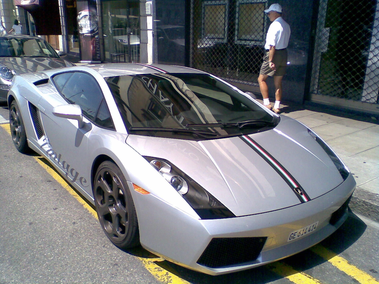 2003-2008 Lamborghini Gallardo in Geneva,Switzerland